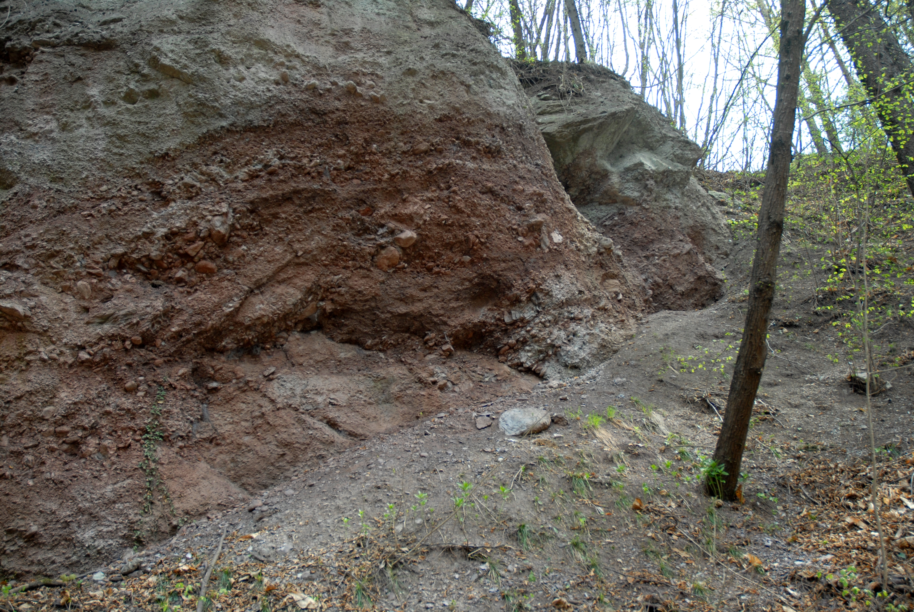 The Ponte Gardena Conglomerate (Permian) near Ponte Gardena, South Tyrol